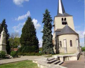 Eglise Saint-Martin, Aillant-sur-Milleron, Loiret, Centre, France